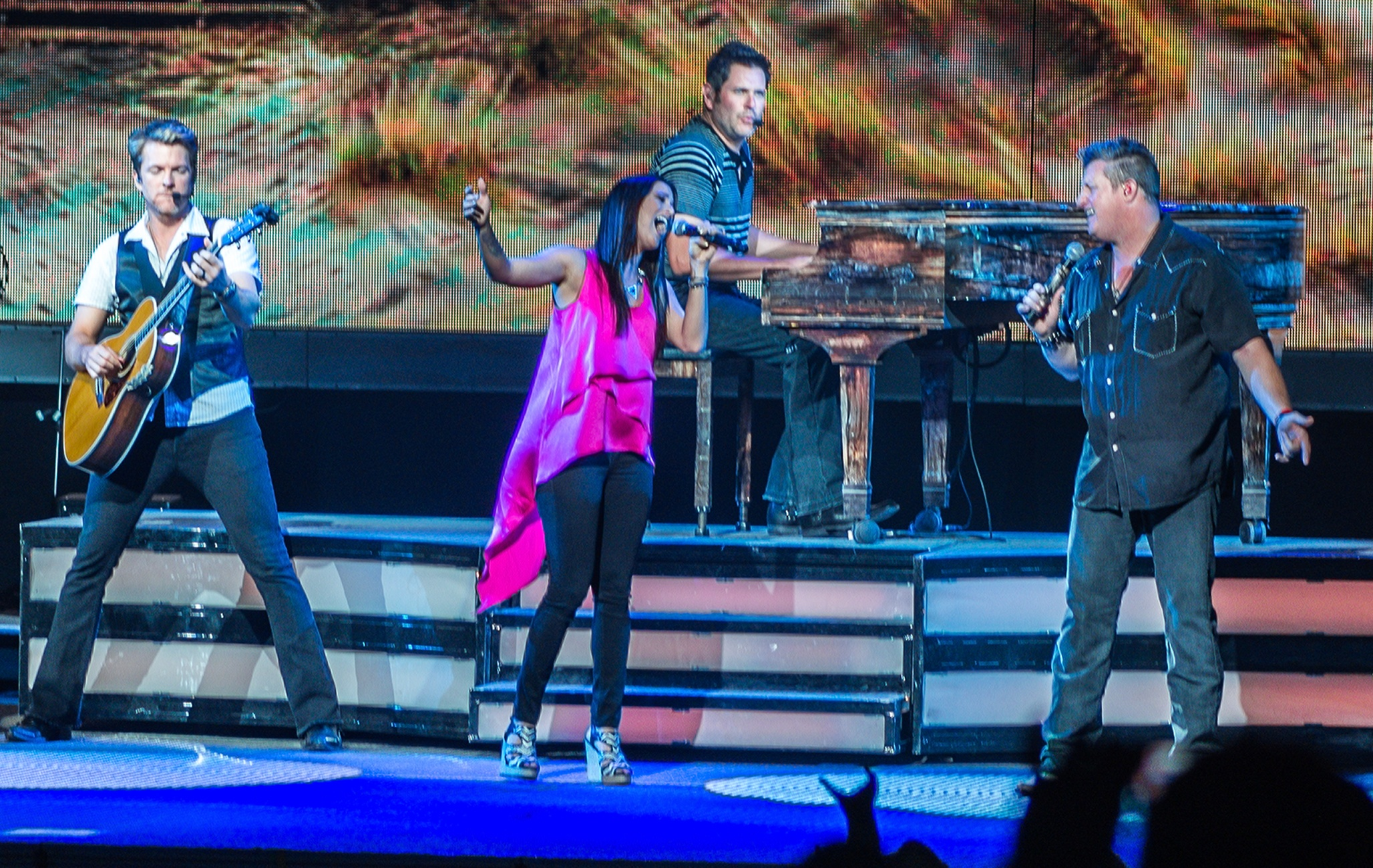 Rascal Flatts & Cassadee Pope performing in Phoenix Sept. 12, 2013